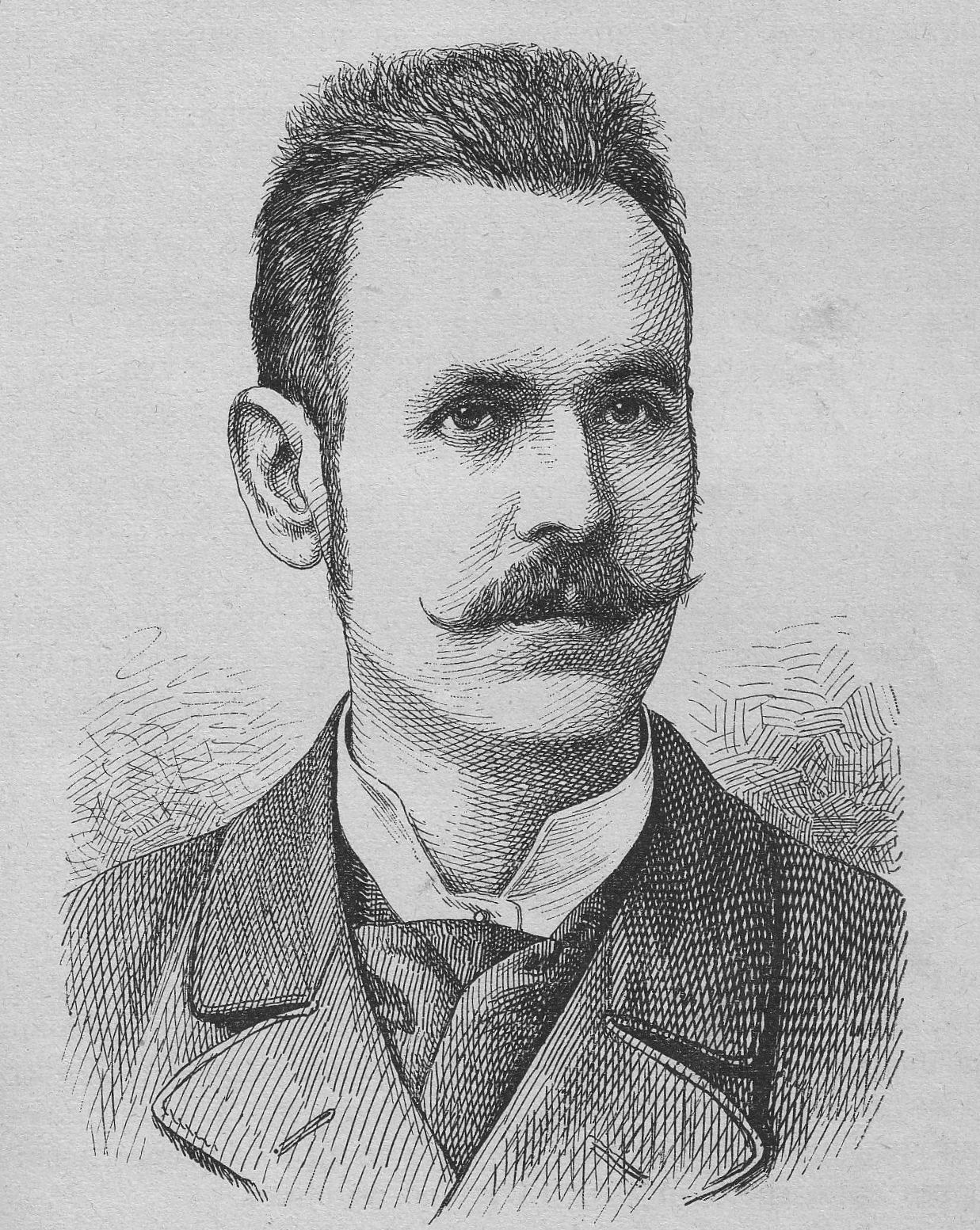 A lithograph of Pavle Jovanović, founder and first editor of the Serbian newspaper in Croatia Srbobran. Taken from the 1898 edition of the calendar Srbobran. Srpski (latinica): Litografija Pavla Jovanovića, osnivača i prvog urednika srpskog lista u Hrvatskoj Srbobran. Preuzeto iz kalendara Srbobran za 1898. godinu.